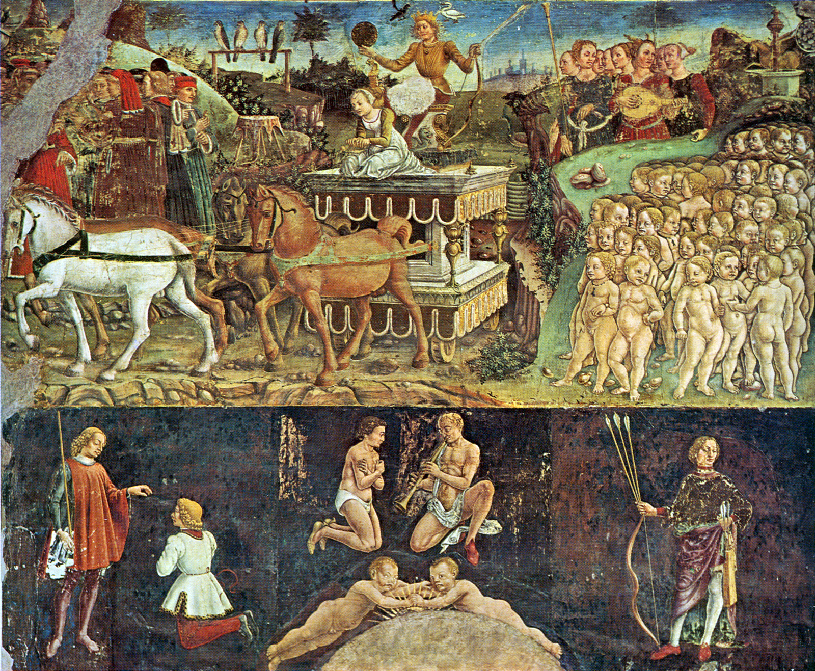 various Ferrarese artist